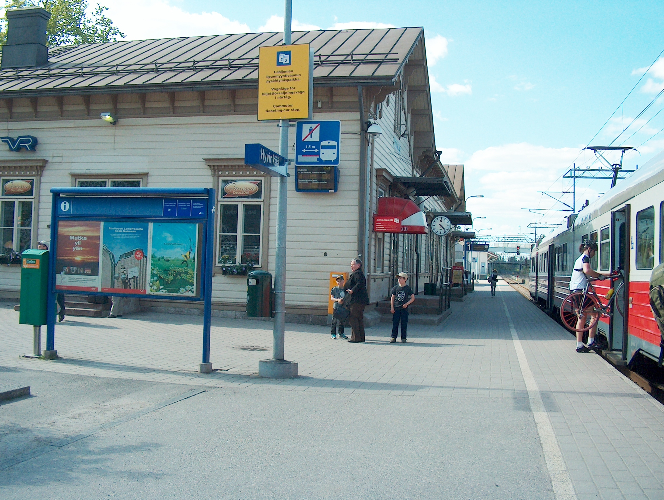 Hyvinkää Railway Station in Finland